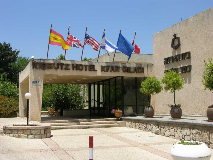 Entry to Kfar Giladi's hotel